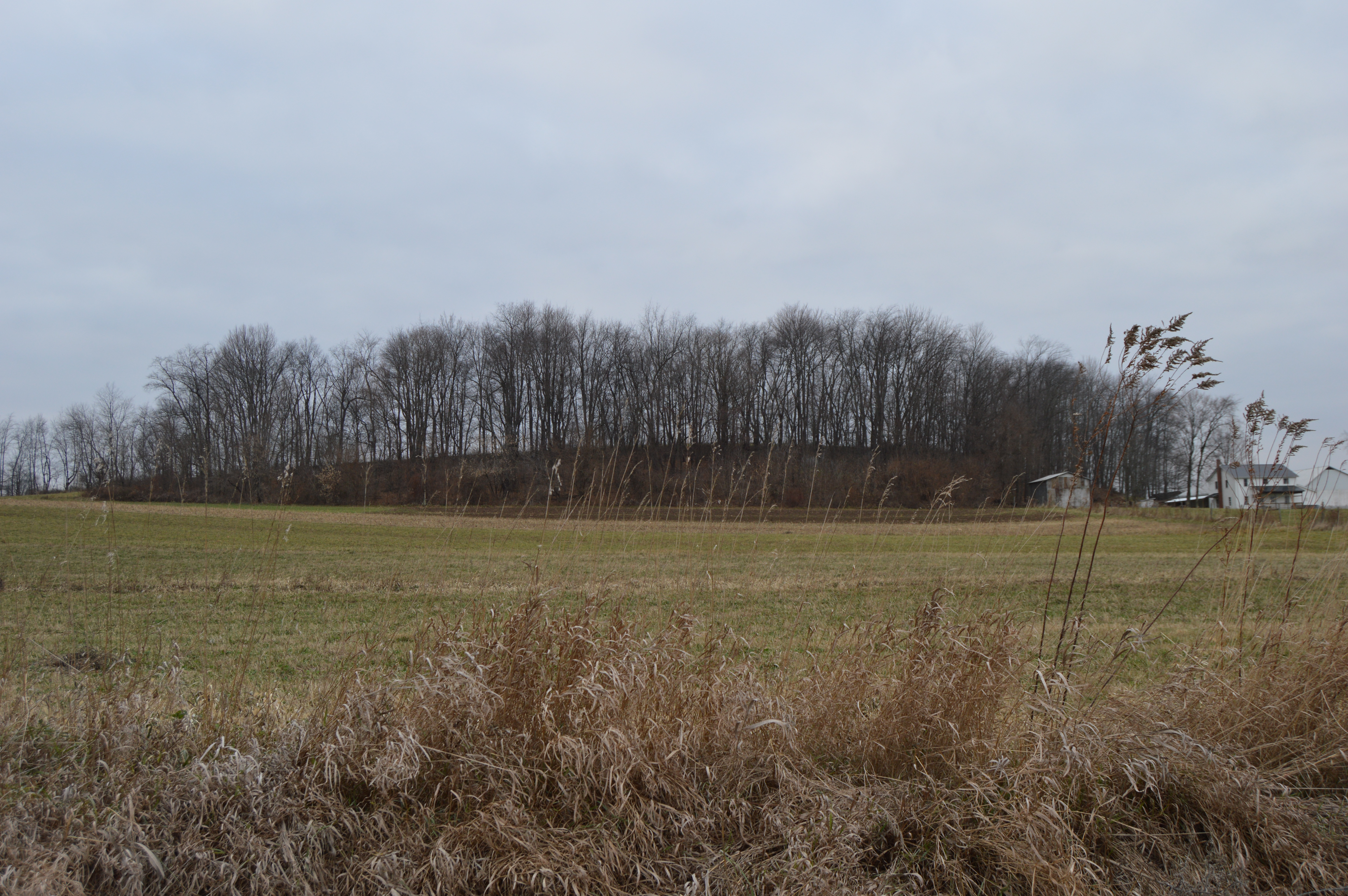 Overview from the east of the Sprott's Hill Mounds Site, located along Township Road 1193 north of Ashland in Clear Creek Township, Ashland County, Ohio, United States. The mounds atop the hill are an archaeological site and listed on the National Register of Historic Places.